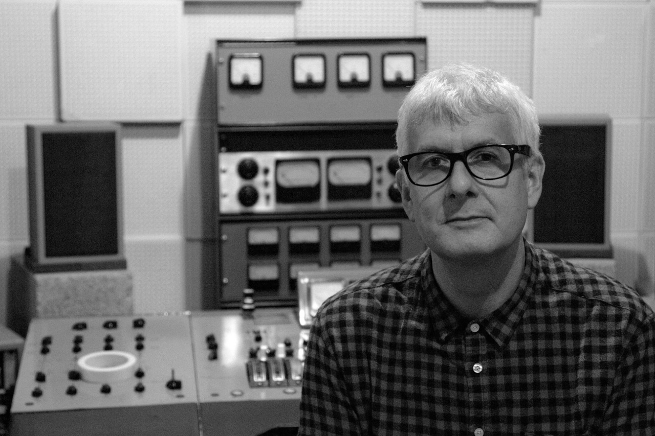 Steve Levine, record producer and songwriter.